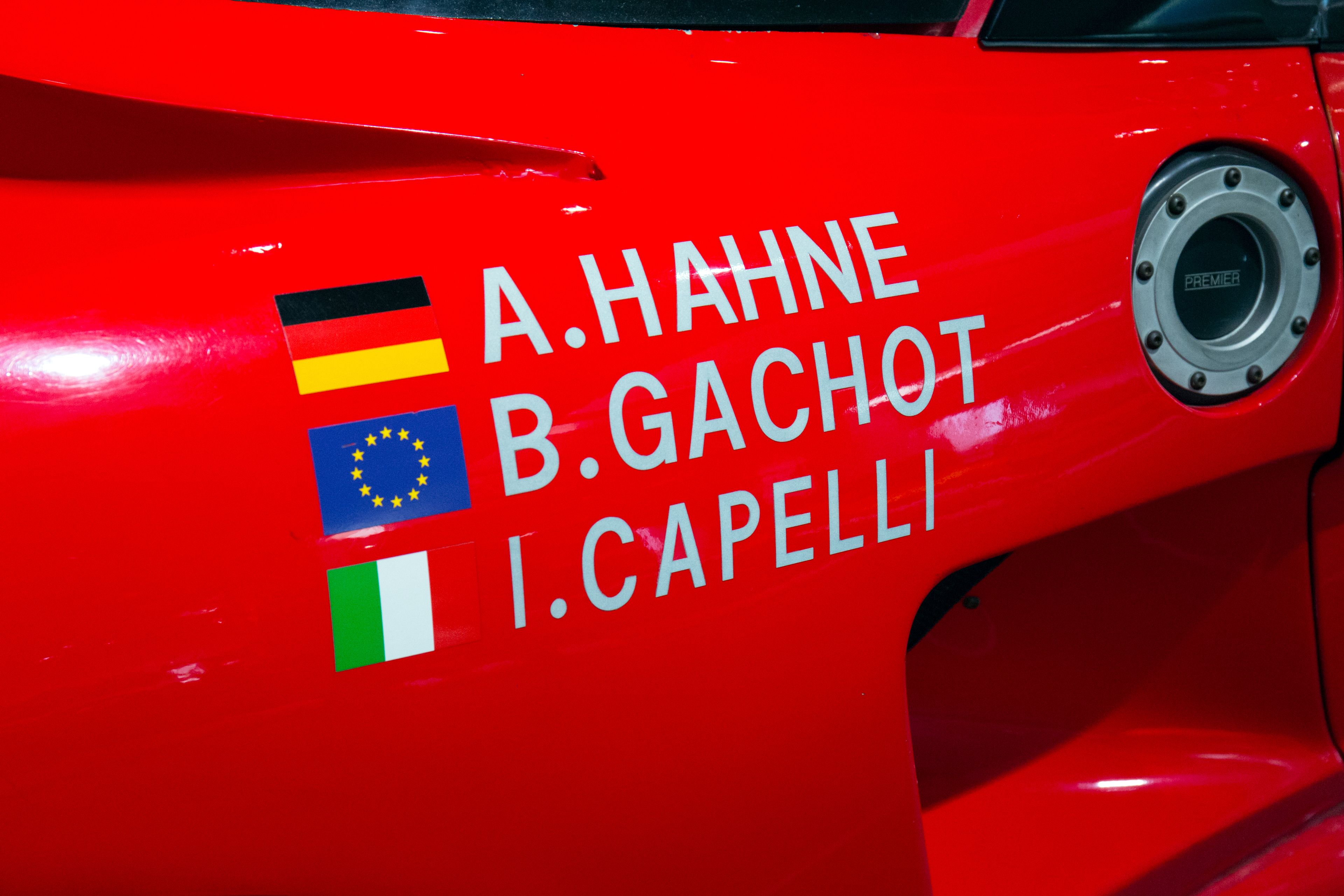 1995 Honda NSX Le Mans (GT1)